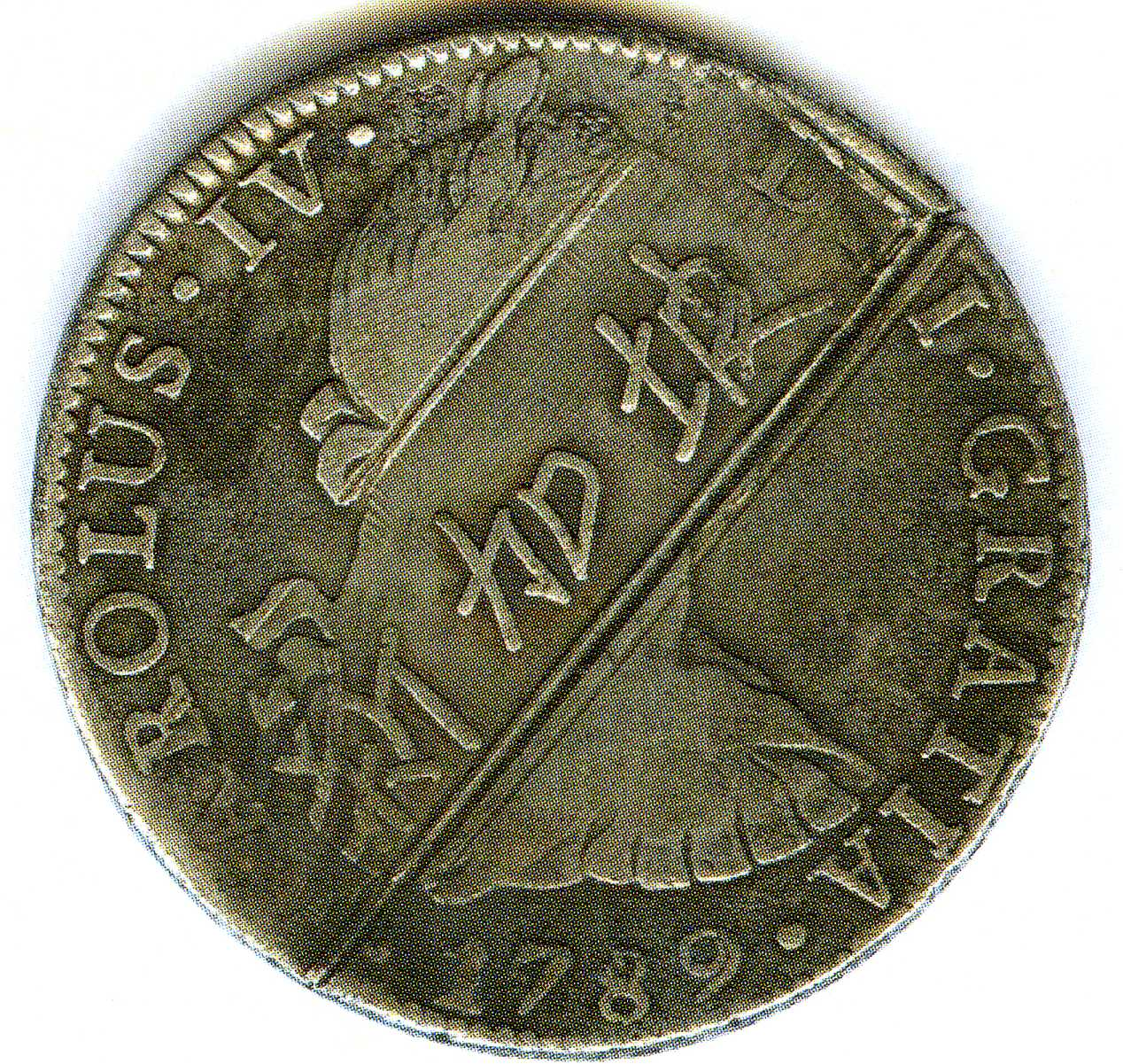 A 1789 silver Spanish dollar, or eight-real, coin of Charles IV of Spain countermarked with the Chinese words "新加坡" (Xīnjiāpō), meaning "Singapore". Such coins (Spanish dollars) were commonly circulated in the East Indies (including Singapore) in the early 19th century.